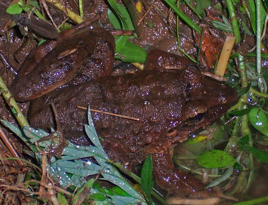 Limnonectes macrodon, from Cimande, Bogor, West Java